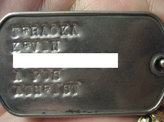 Military dog tags with religious (belief system) designation: ATHEIST. Dog tags posted on Flickr by sister of military member and uploaded to wikipedia with permission of both the member and his sister.